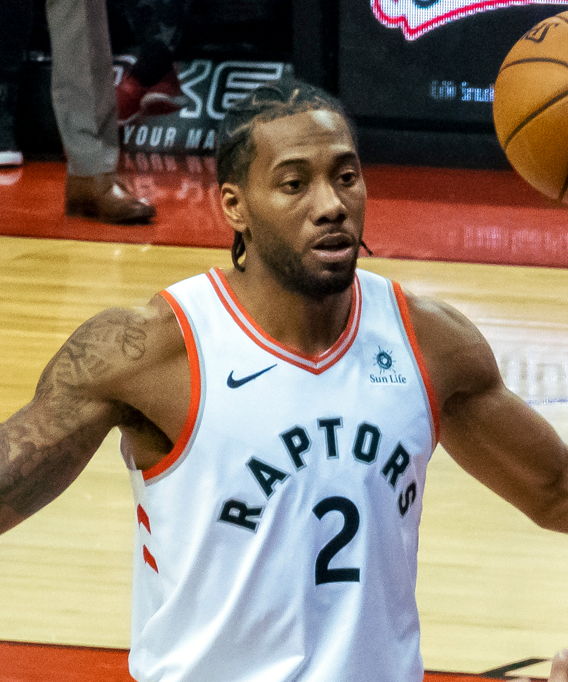 kawhi leonard playing for toronto raptors scotiabank arena v charlotte hornets nba